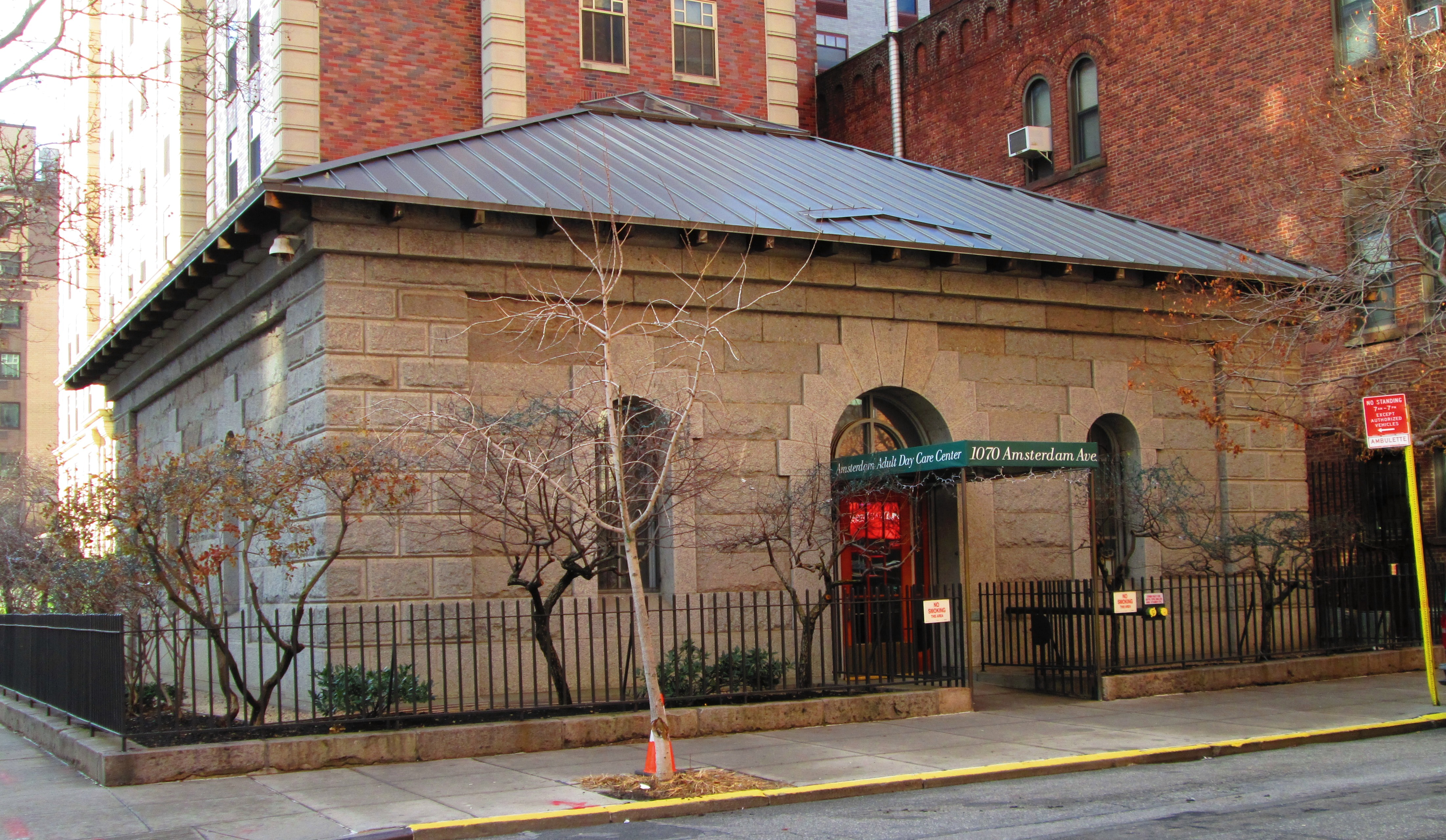 The building at 1070 Amsterdam Avenue at the corner of West 113th Street in the Mornigside Heights neighborhood of Manhattan, New York City was originally built c.1890 as the 113th Street Gatehouse for the New Croton Aqueduct. In service until 1987, it is the mate of the similar building at Amsterdam Avenue and 119th Street. (Source: AIA Guide to NYC (5th ed.))